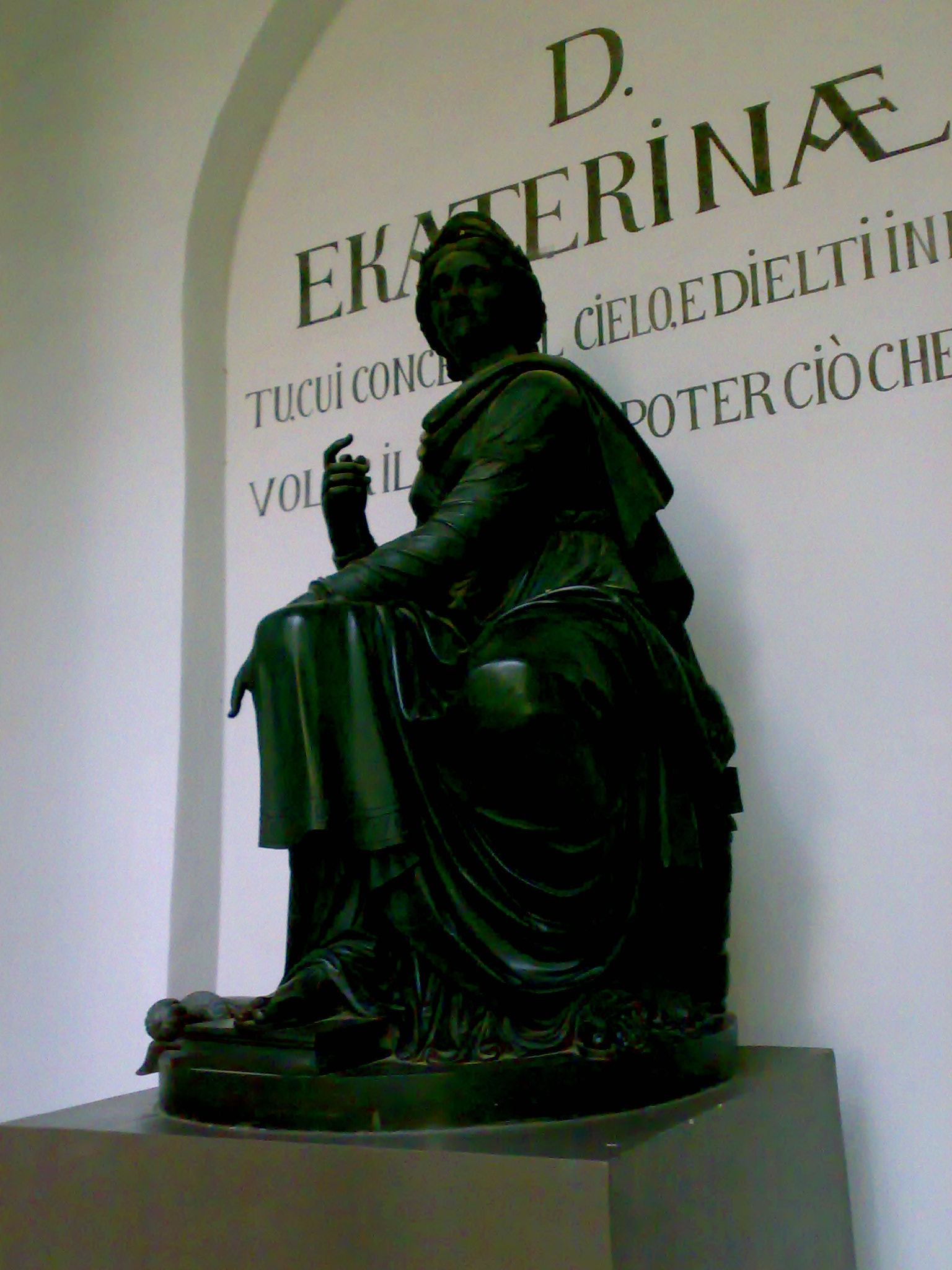 took this image using my mobile on November 8, 2008 in Arkhangelskoye Estate, outside Moscow, Russia. Catherine II Statue. Sculptor: Jacques-Dominique Rachette (1744-1809). Architect: Yevgraph Tyurin (1792-1870).